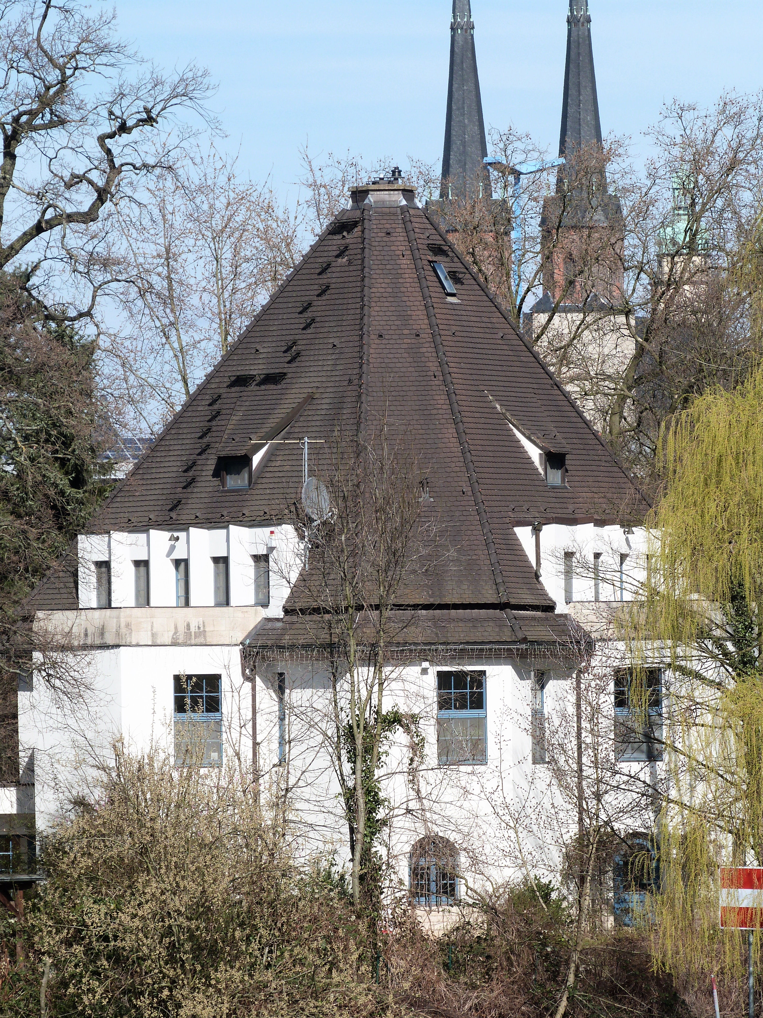 Villa Ulrich, Ratswerder No. 7, Halle (Saale), built in 1924/25, architect Wilhelm Ulrich